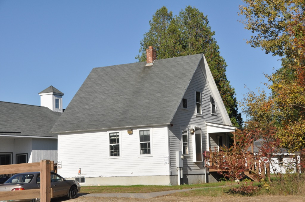 A house (now used as offices for the state surplus department) on the state-owned White Farm in Concord, New Hampshire.